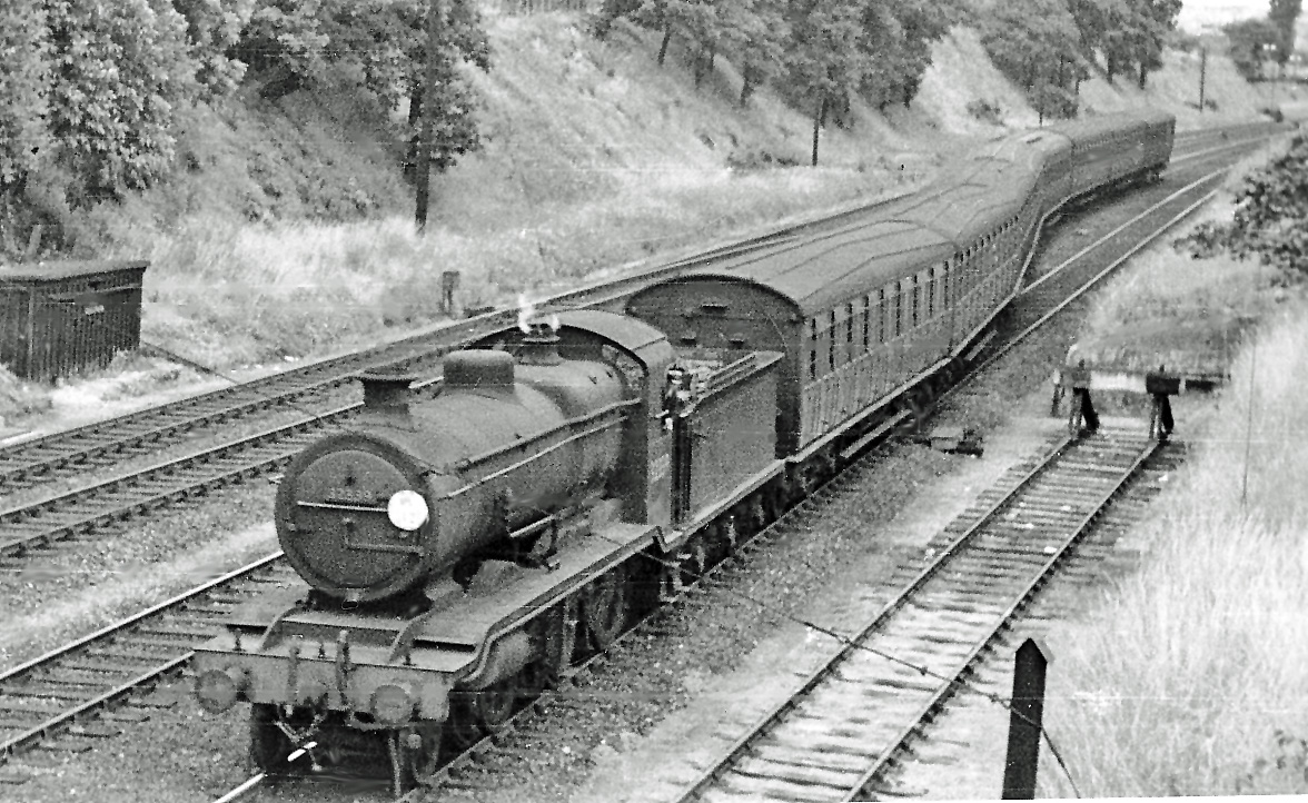 Air Display Special from Waterloo approaching Farnborough. View eastward, towards London: ex-LSW Waterloo - West main line. For the Air Show in 1950, redundant air-braked suburban stock was borrowed by the SR from the ER (Great Eastern section) and required the use of Westinghouse-fitted locomotives off the Brighton section to work it. Here ex-LB&SC K class 2-6-0 No. 32339 is in charge of a train from Waterloo.